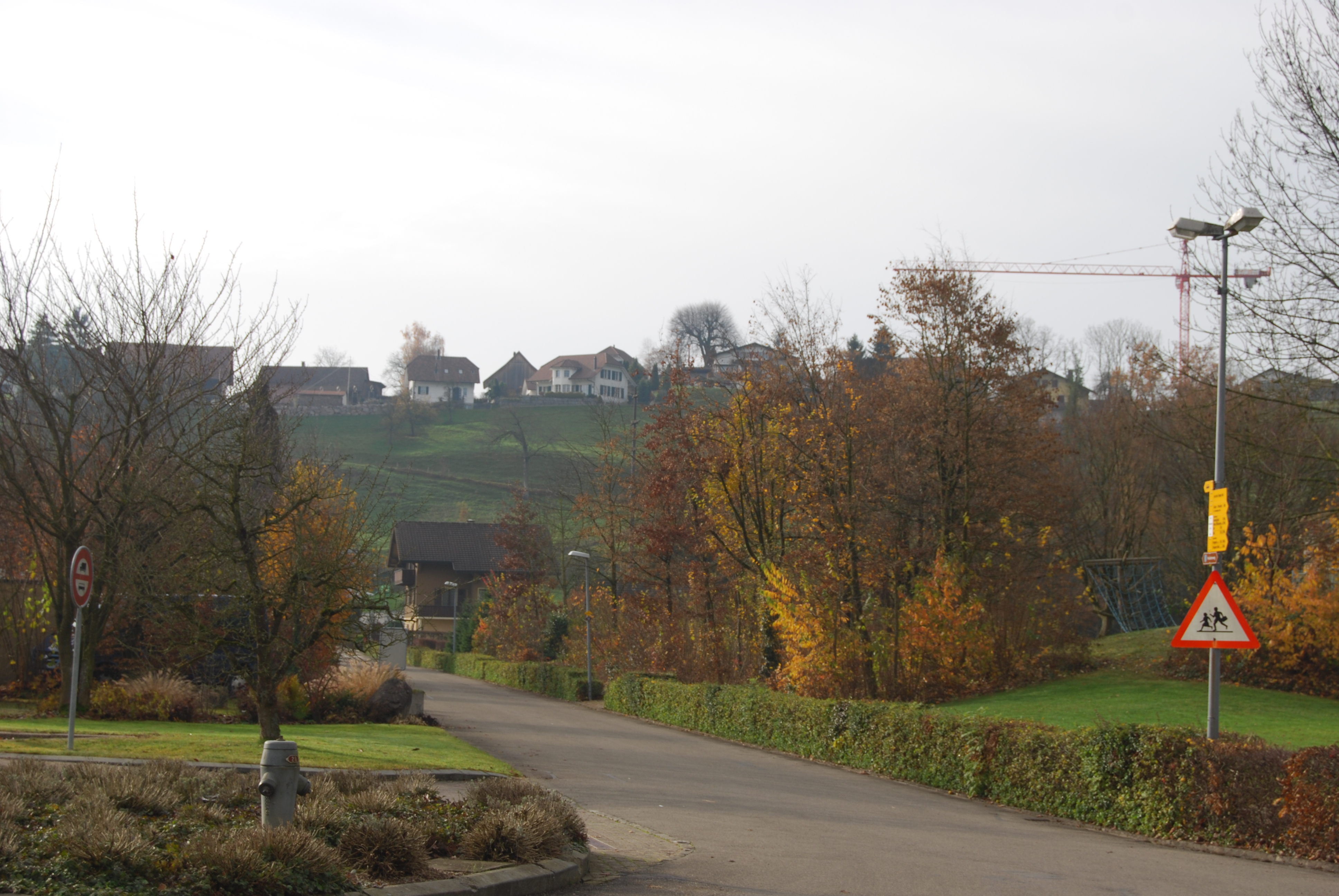 Hermetschwil, canton of Aargau, SwitzerlandEsperanto: Hermetschwil, Kantono Argovio, Svislando